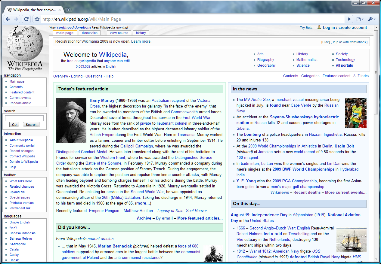 SRWare Iron running on Windows Vista rendering Wikipedia